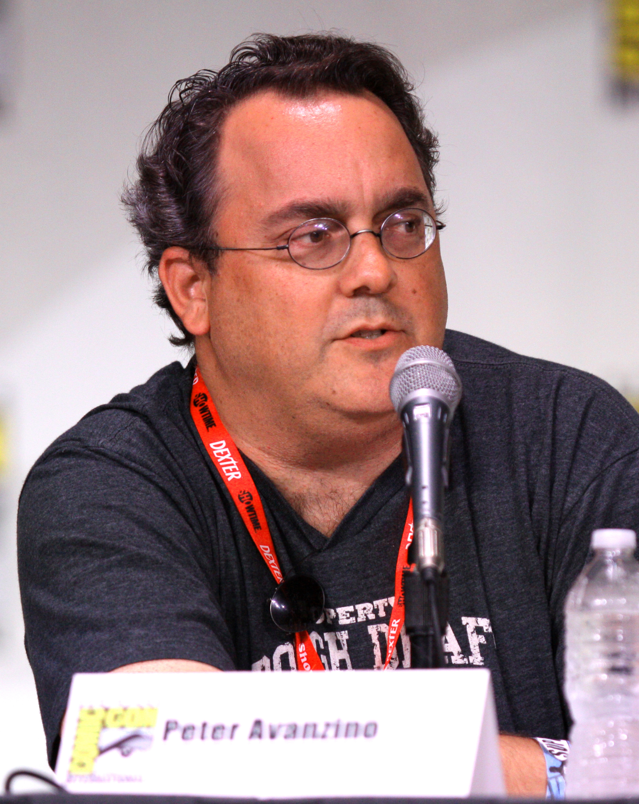 Peter Avanzino at the 2011 Comic Con in San Diego